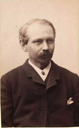 Johan Friderich Bergsøe (1841-1897), Danish flower painter